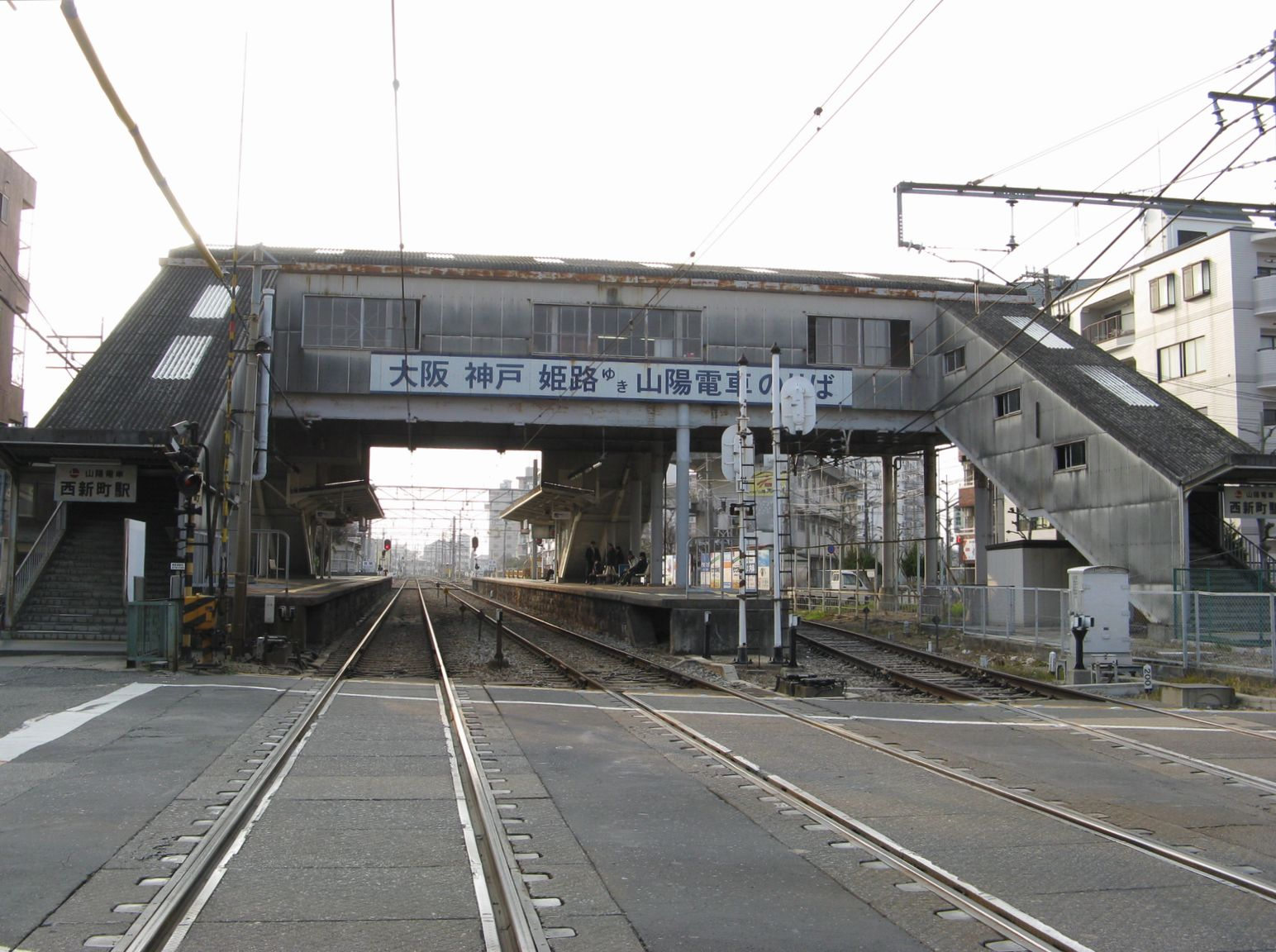 Sanyo Electric Railway's Nishi-Shimmachi Station